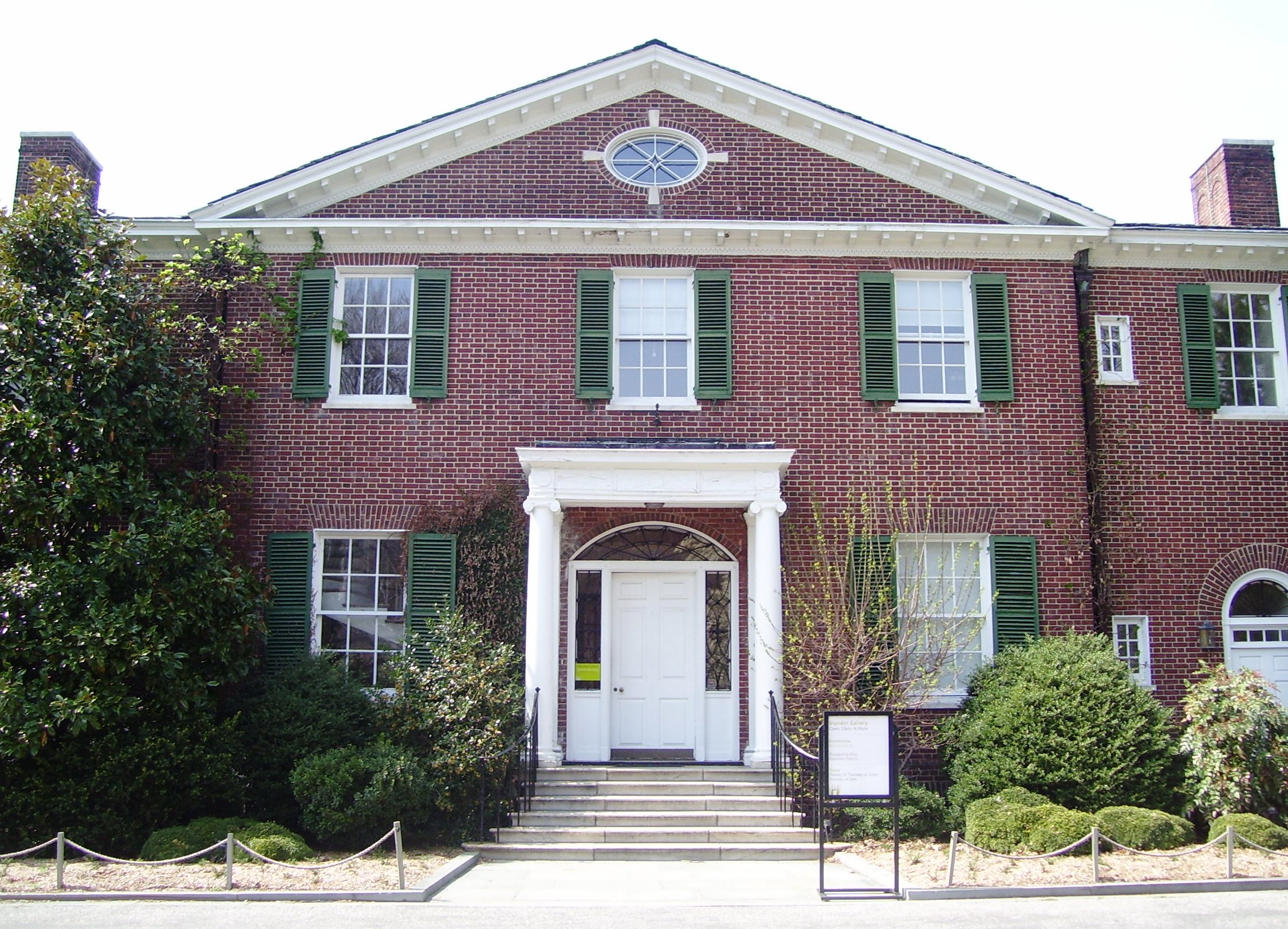 Glyndor, on the grounds of Wave Hill in the Bronx, New York City, was built by the Harrimans in the 1880s and purchased by George W. Perkins to add to his Wave Hill estate. The building burned down and was rebuilt in 1927. It currently houses Glyndor Gallery, where art exhibitons are presented.